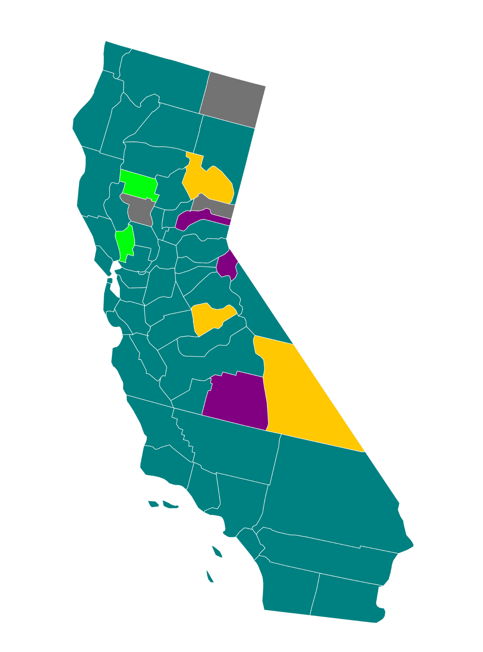 Teal counties represent Hawkins plurality. Purple counties represent Hunter plurality. Yellow counties represent Curry plurality. Green counties represent Lambert plurality. Grey counties represent tie.